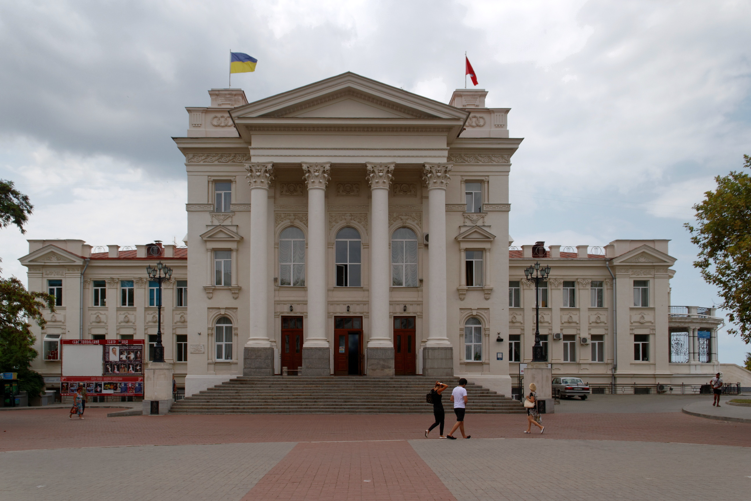 Sevastopol. Palace of Children and Youth Creativity